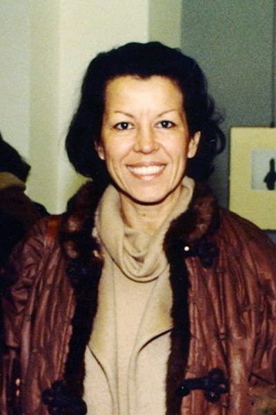 Italian journalist and writer Lina Sotis at a photographic show in Naples